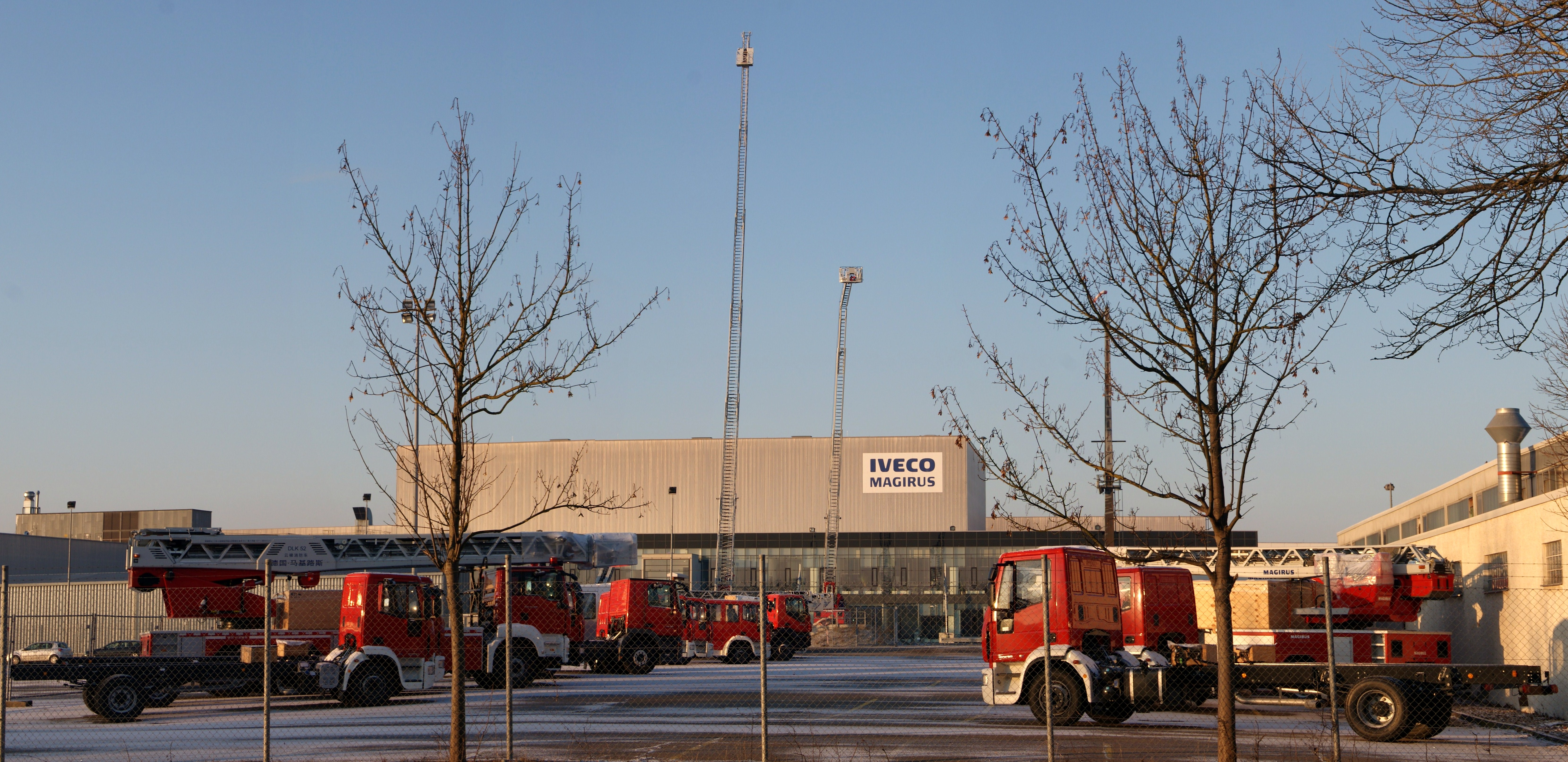 Iveco Magirus factory Ulm with turntable ladders